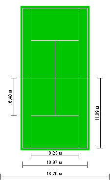 Tennis court size in meters